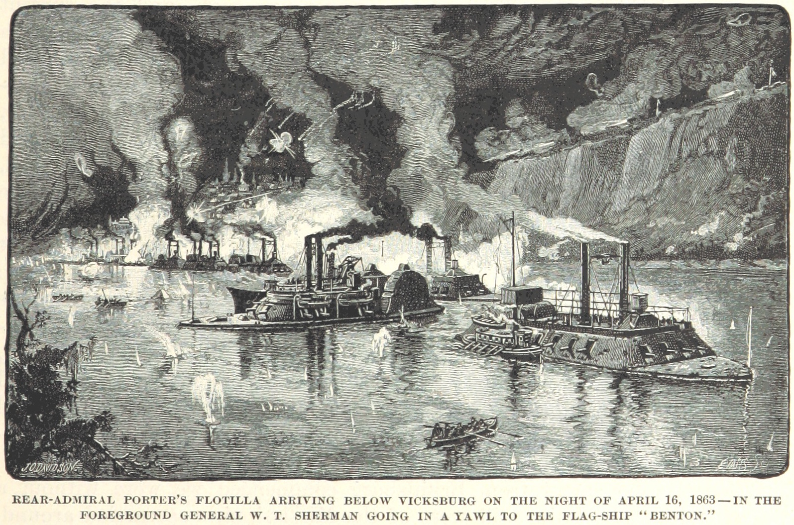 Admiral Porter's flotilla of gunships and transports arrives below Vicksburg on 16 April 1863. General W. T. Sherman is rowing out to the flagship, USS Benton, in a yawl.